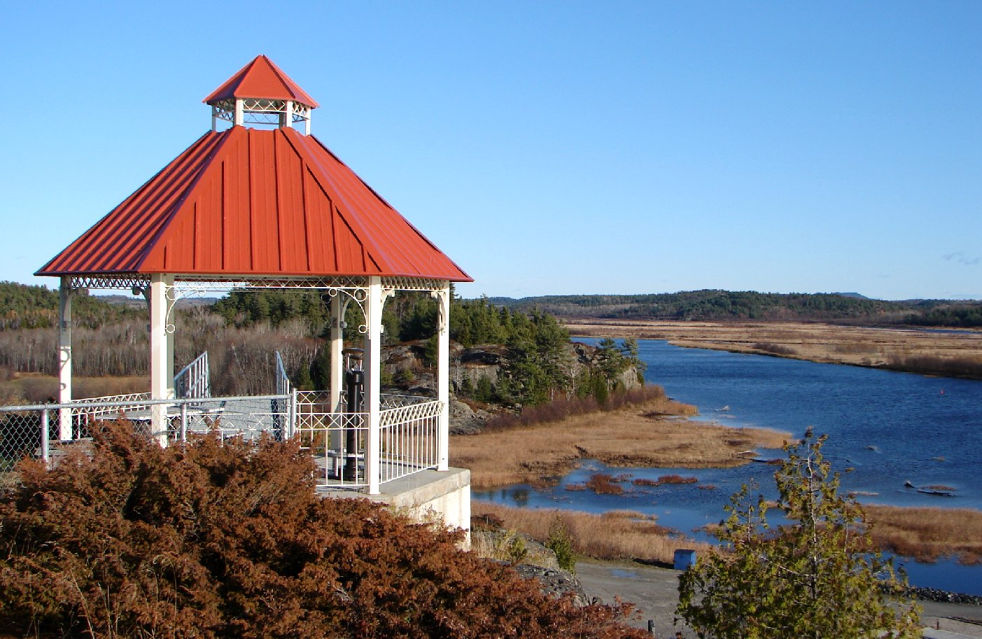 Lookout over the mouth of the Spanish River at the Town of Spanish, Ontario, Canada